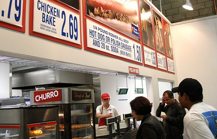 The traditional hot dog stand (actually a kind of mini-restaurant) at a Costco warehouse club store in Mountain View, California.